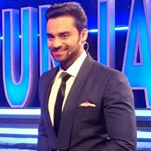 PTC Punjabi film awards 2014